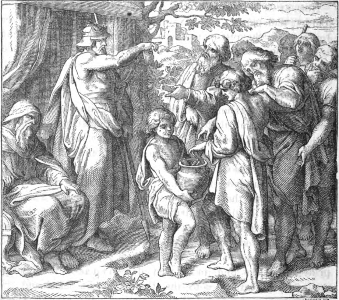 Joshua casting lots for the tribes of Israel.